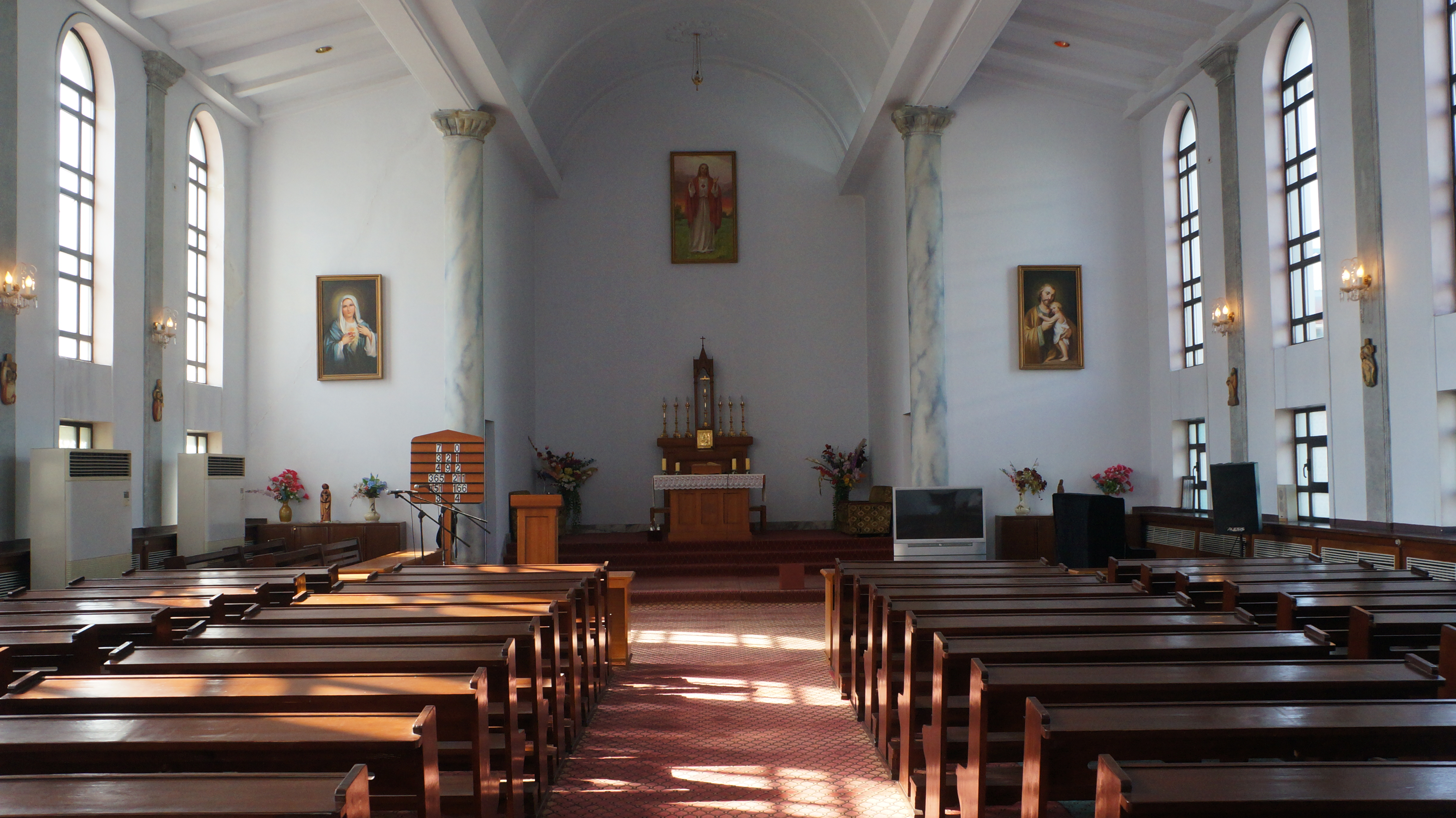 The interior of the Jangchung Catholic Church located in Pyongyang, North Korea.